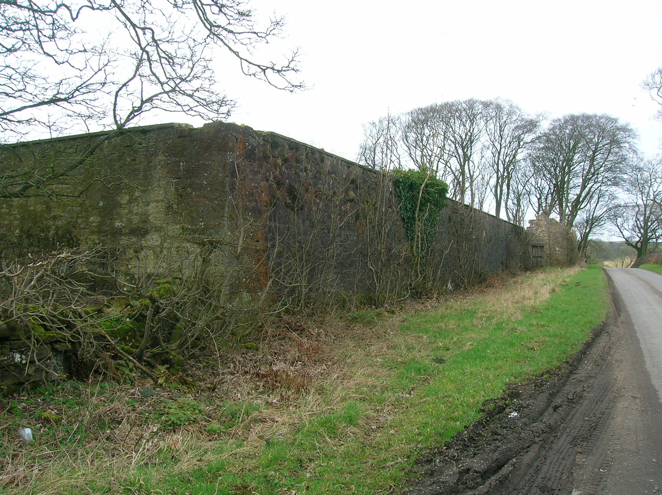 Ashgrove walled garden, roadside view. Kilwinning, North Ayrshire, Scotland.